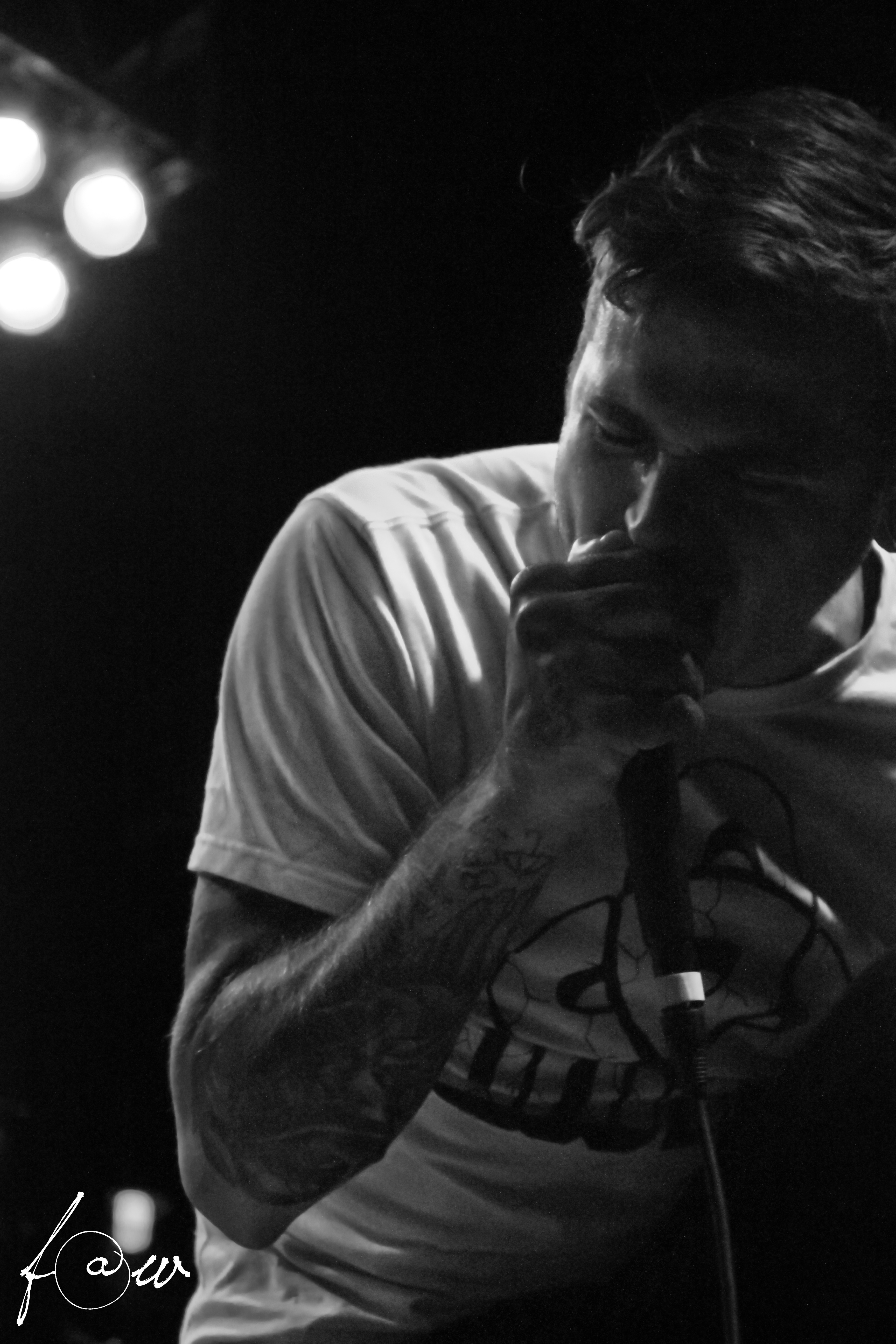 The Amity Affliction singer Joel Birch live in Norfolk, VA, 2012